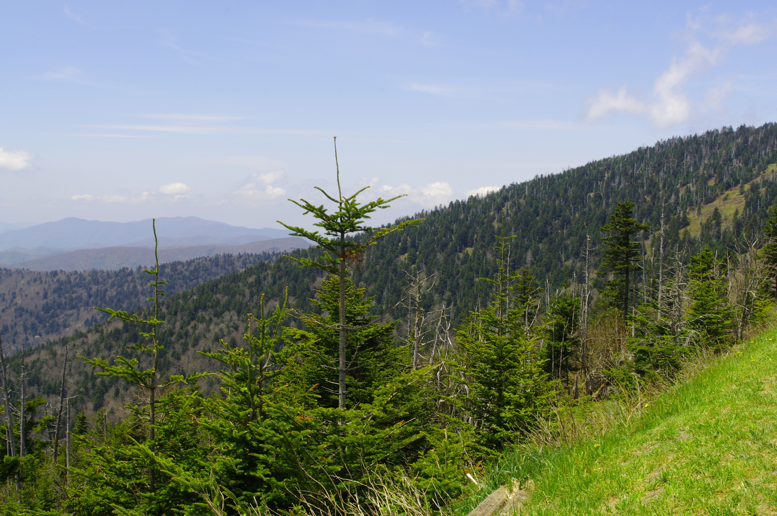 Appalachian spruce-fir stand (Fraser firs and red spruces) on the slopes of Clingmans Dome in the Great Smoky Mountains of Sevier County, Tennessee, USA. On the slope in the distance, the dark spruce-fir canopy gradually gives way to the brown hardwood canopy as the slope descends to the left side of the image.